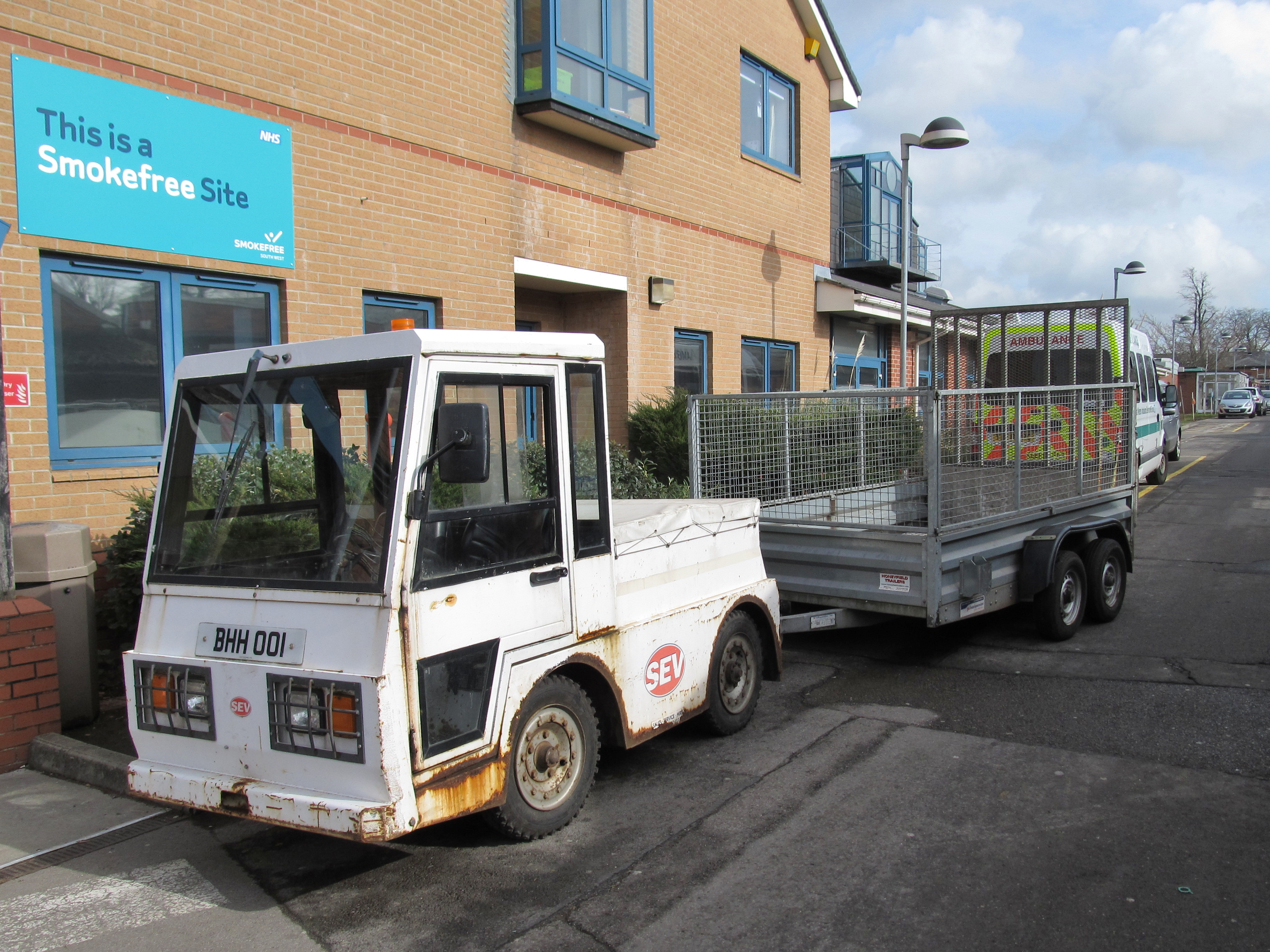 A Smith Electric Vehicles (SEV) vehicle and trailer at Frenchay Hospital, Bristol. It is parked outside The Barabara Russell Children's Unit.